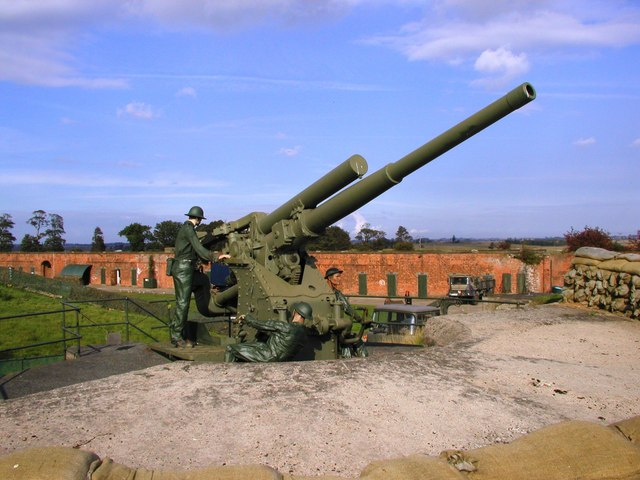 3.7 inch anti-aircraft gun at Fort Paull, Paull, East Riding of Yorkshire, England